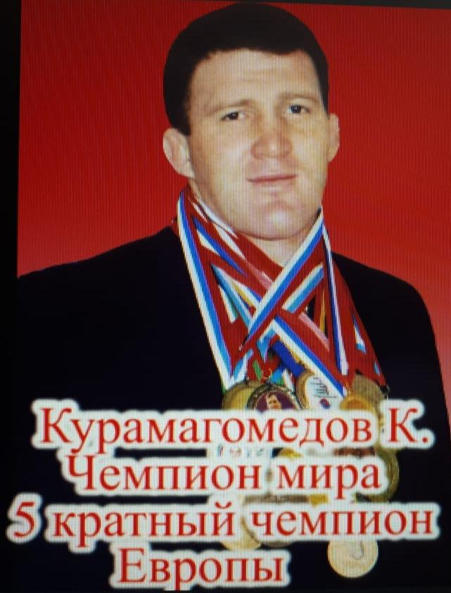 Курамагомедо Курамагомед Шарипович 5 кратный чемпион мира Европы